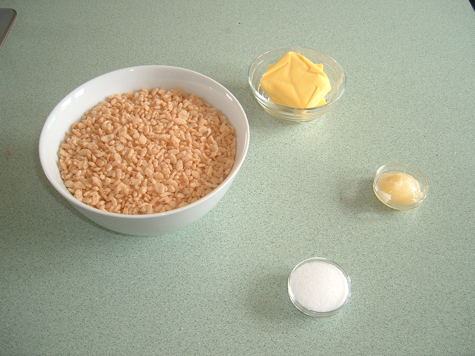 The ingredients for making Rice Bubble cake. Clockwise from the top is butter, honey, sugar and Rice Bubbbles